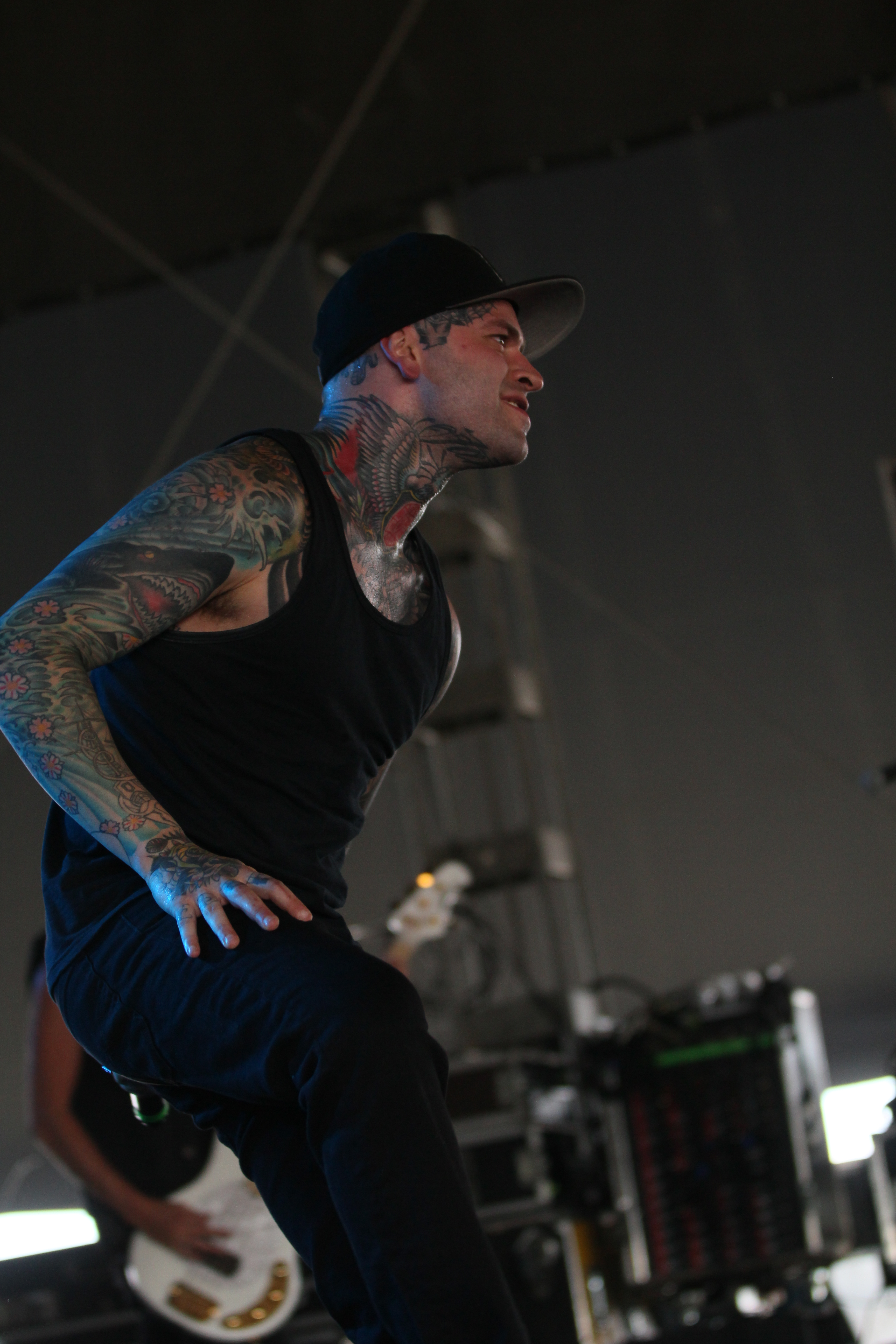 The American metalcore band For the Fallen Dreams at the With Full Force festival 2014 in Roitzschjora/Germany